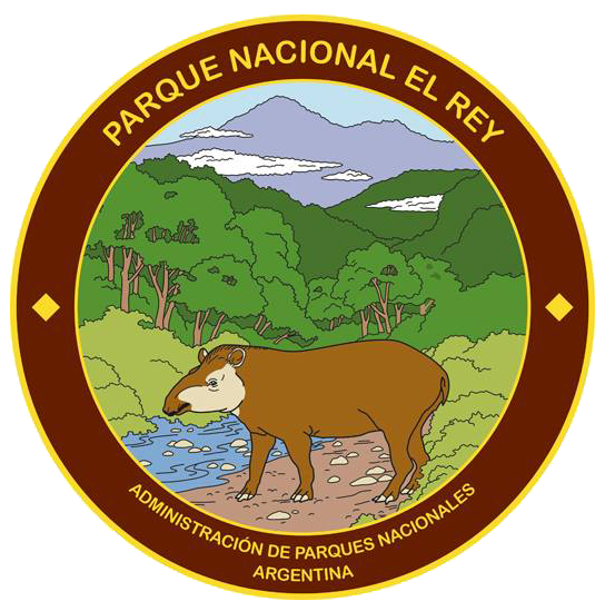 Logo of Argentine El Rey national park, sited in Salta Province.